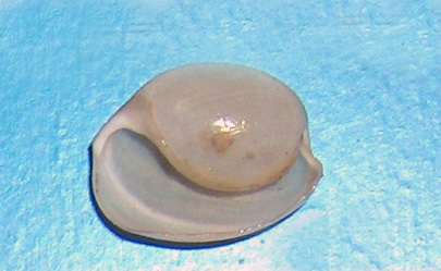 Haminoea navicula, a sea snail from the family Haminoeidae